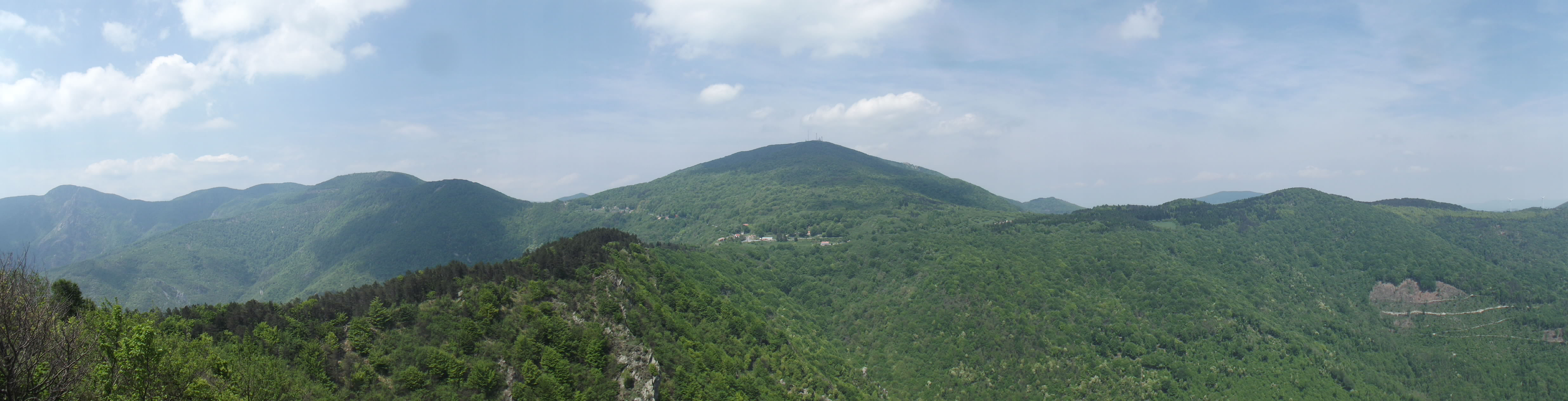 Panorama from Bric Gettina (Ligurian Prealps; SV, Italy)